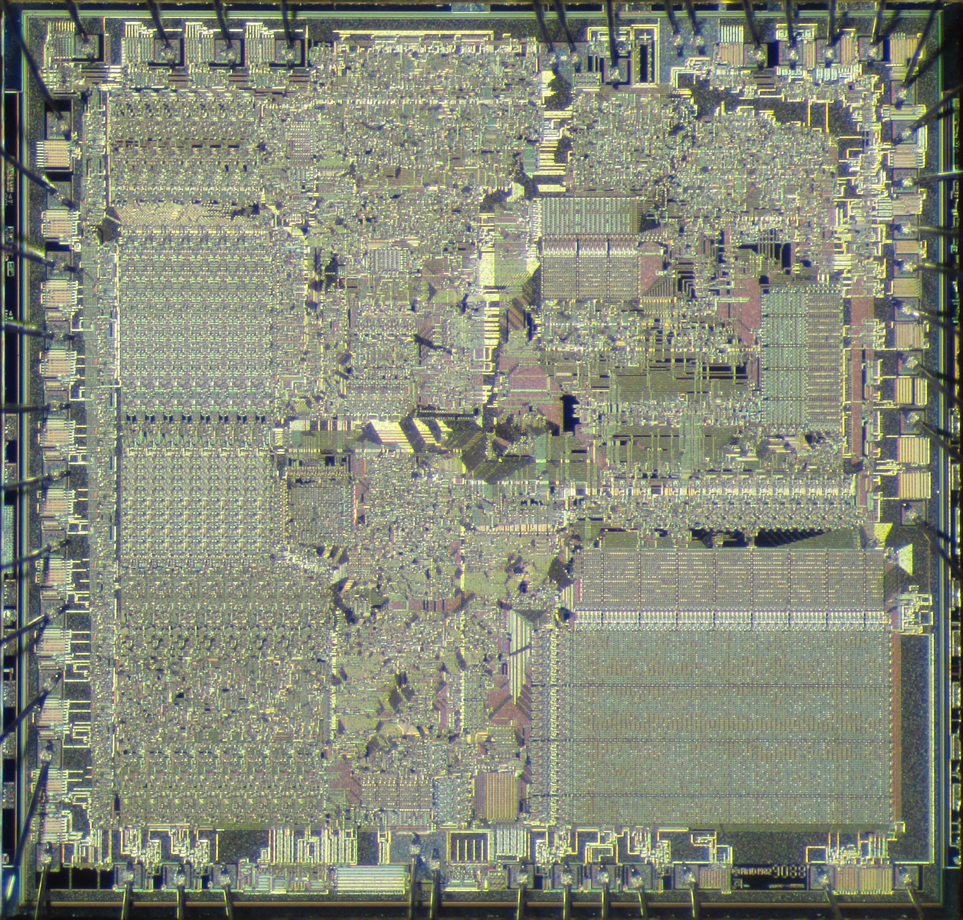 Die shot of AMD 8088 microprocessor (D8088).